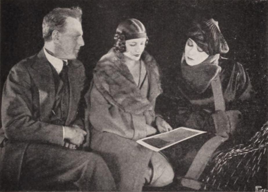 Production still from the American drama film Salomé (1923) with Charles Bryant, Natacha Rambova, and Alla Nazimova, on page 31 of the June 17, 1922 Exhibitors Herald.